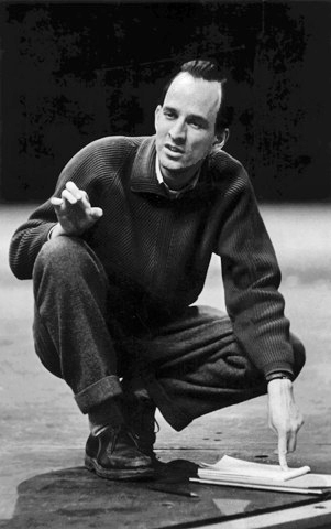 Ingmar Bergman directing at Malmö City Theatre 1958.